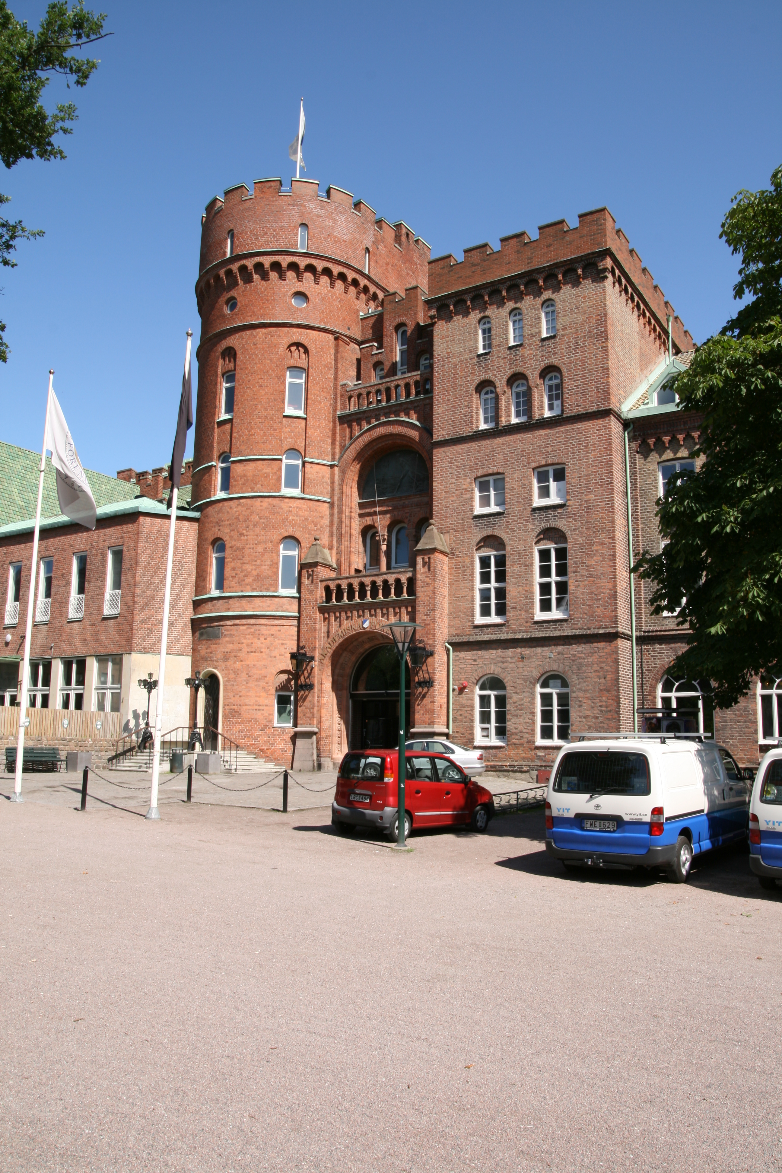 The main entrance of the AF building in Lundagård, Lund, Sweden.